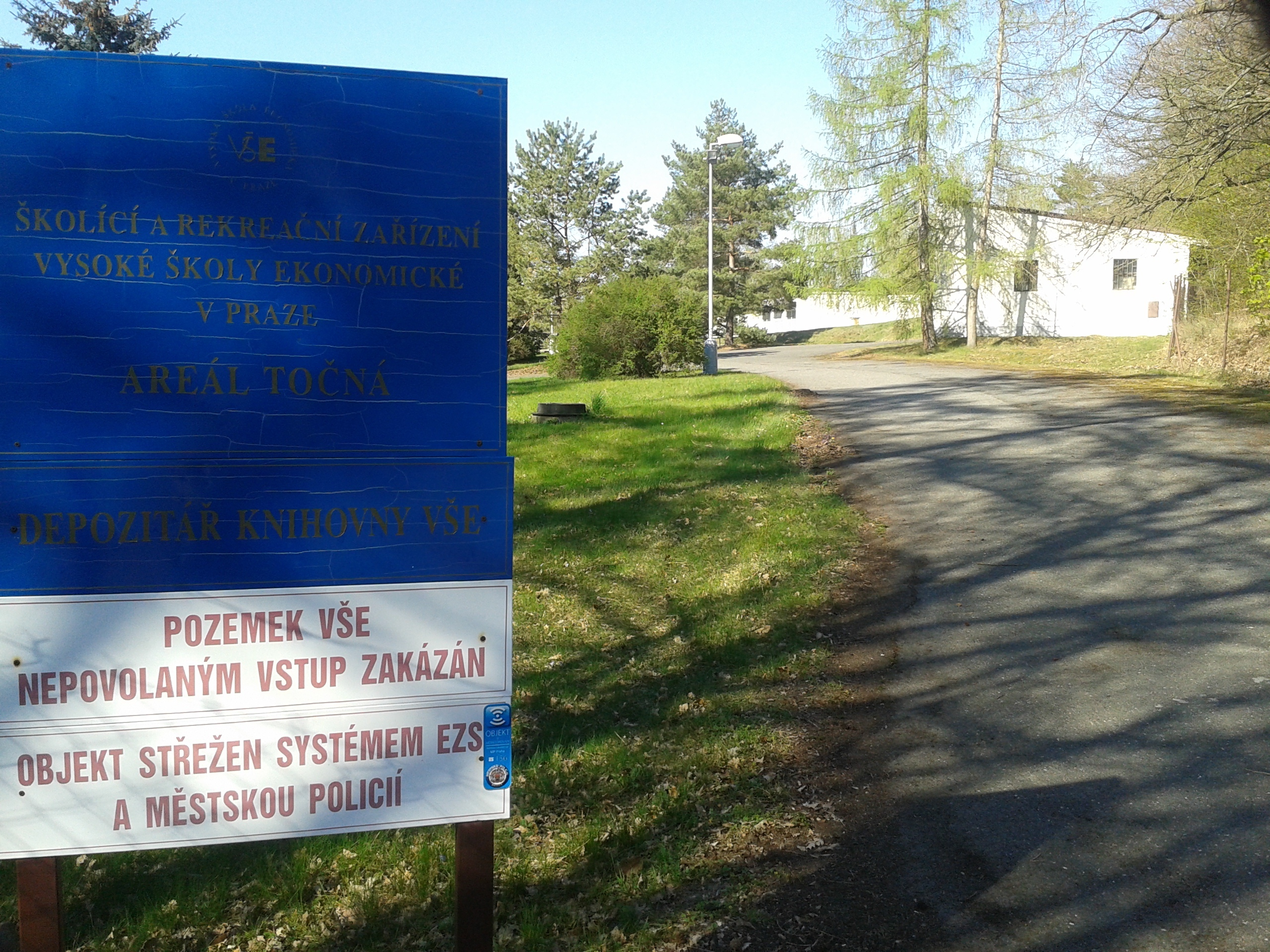 Training and recreation facility of the University of Economics, Prague, and depository of its Library - Areal Točná